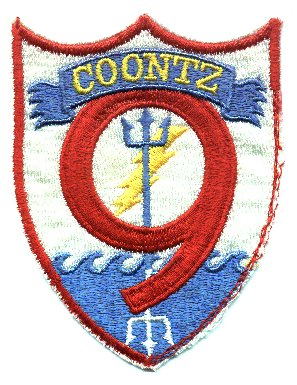 Insignia of the U.S. Navy guided missile destroyer USS Coontz (DLG-9). The ship adopted a new crest after chance of hullnumber to DDG-40, see Image:Uss Coontz DDG-40 Insignia.jpg